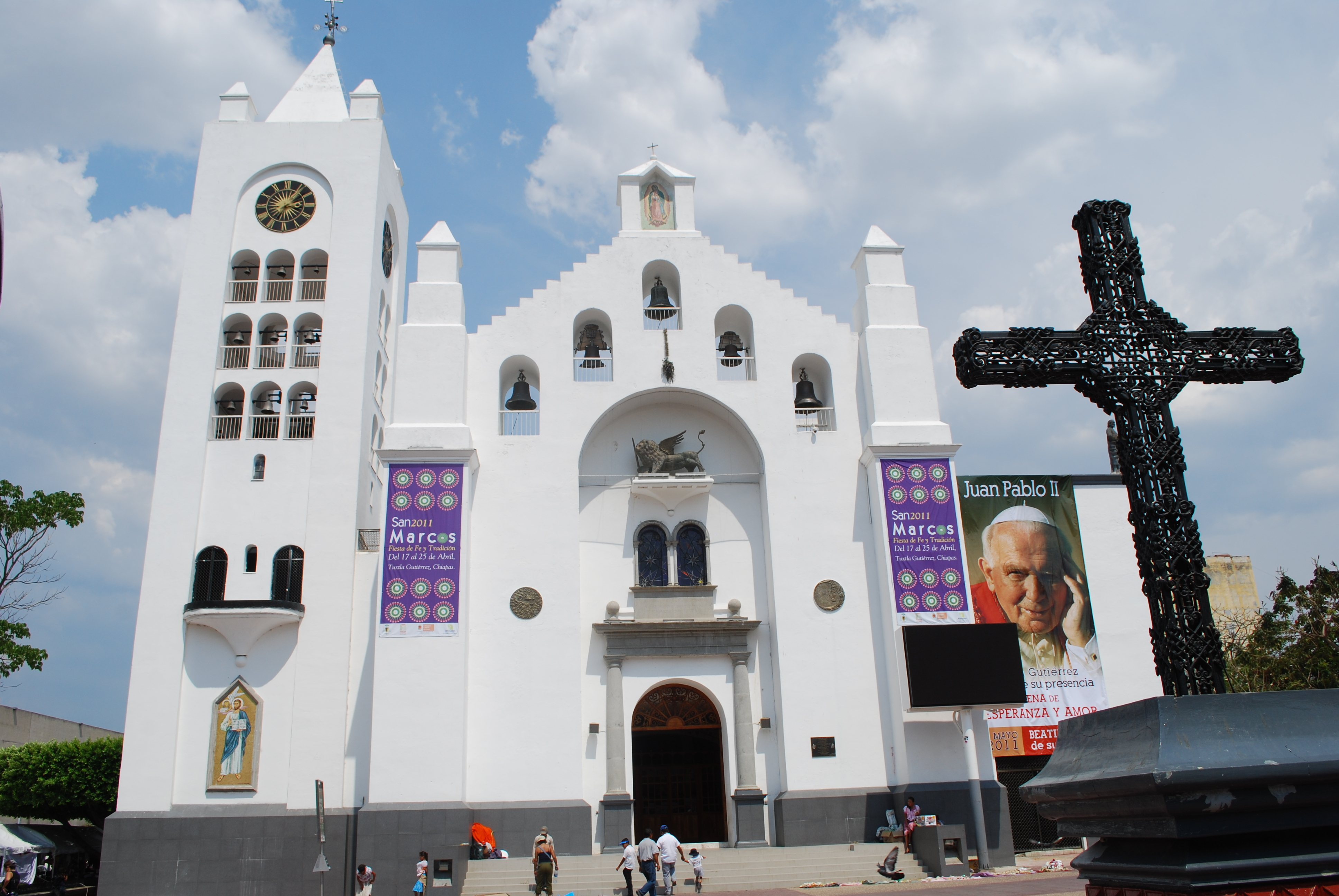 Facade of the San Marcos Cathedral in Tuxtla Gutiérrez, Chiapas, Mexico